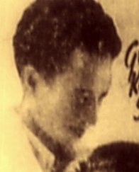 Basoeki and Fatima in Kedok Ketawa